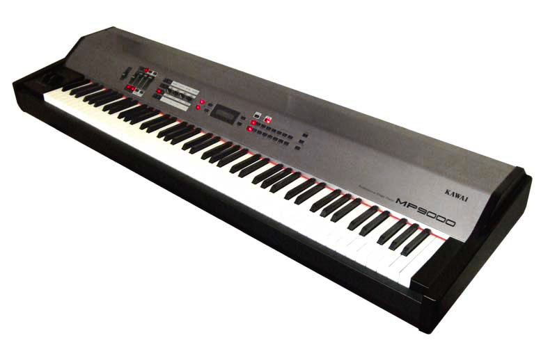 Kawai MP9000 Stage Piano.